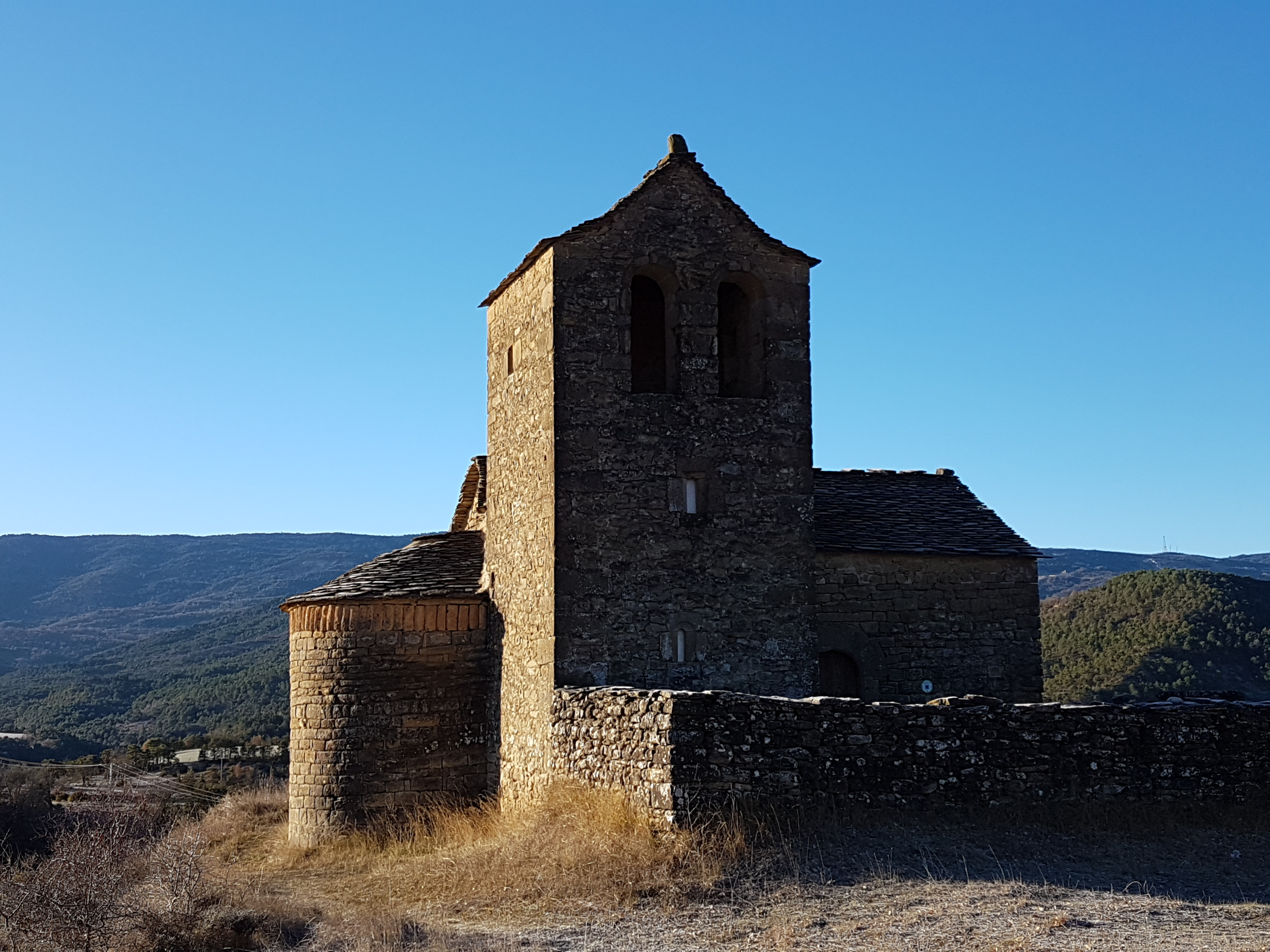 Church of Ordoves (Sabiñanigo, province of Huesca, Aragon, Spain), beginning of the 11th century.